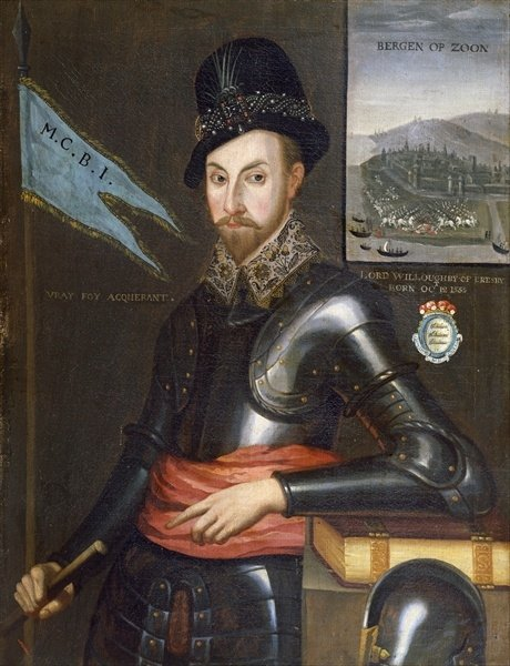 Portrait of Peregrine Bertie, 11th Baron Willoughby de Eresby (1555-1601)